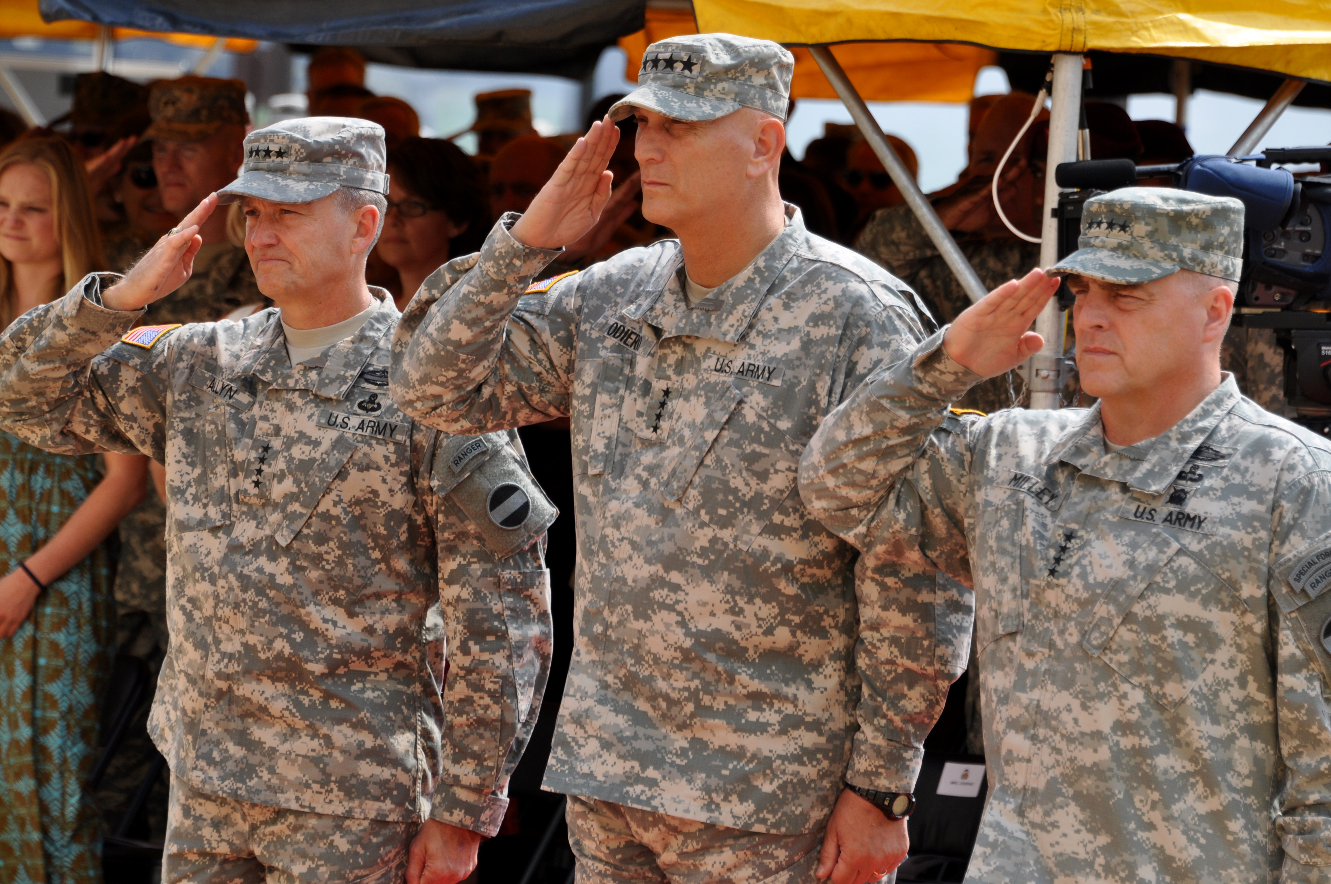 Outgoing U.S. Army Forces Command commanding general, Gen. Daniel B. Allyn, left, Army Chief of Staff Gen. Raymond T. Odierno, center, and incoming FORSCOM Commanding General Gen. Mark A. Milley, each render the hand salute during the playing of the National Anthem, Aug. 15, 2014, at a FORSCOM change-of-command ceremony at Fort Bragg, N.C.